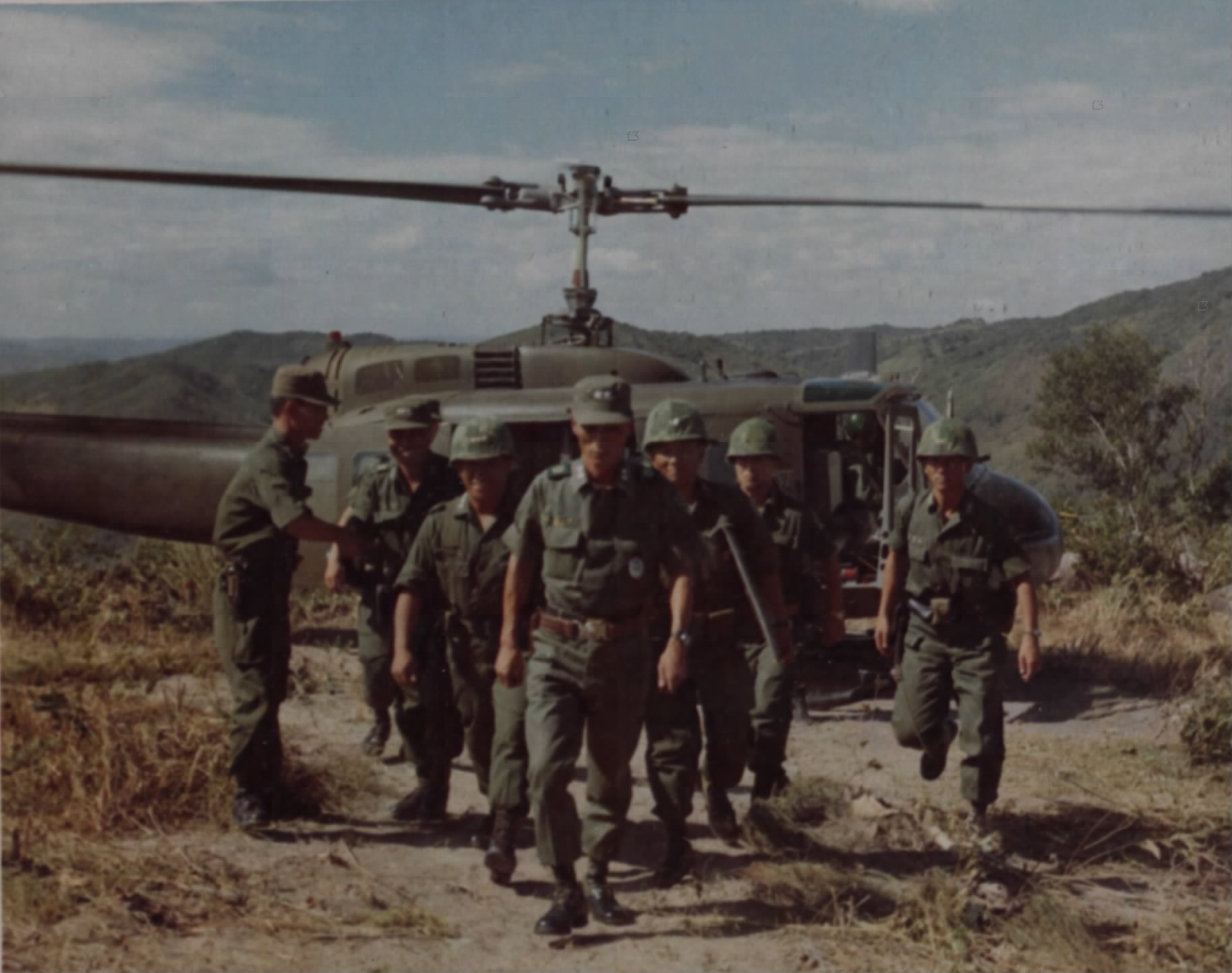 KOREAN TIGER DIVISION. GEN Soon Min Chung, CG, Tiger Division, arrives at the camp of the 26th Infantry Regiment, by UH-1D helicopter.